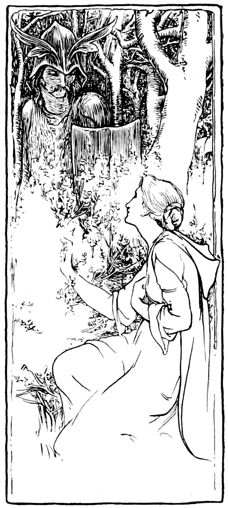 Scan illuatration on page of book in a series of fairy tales. A warning to children.